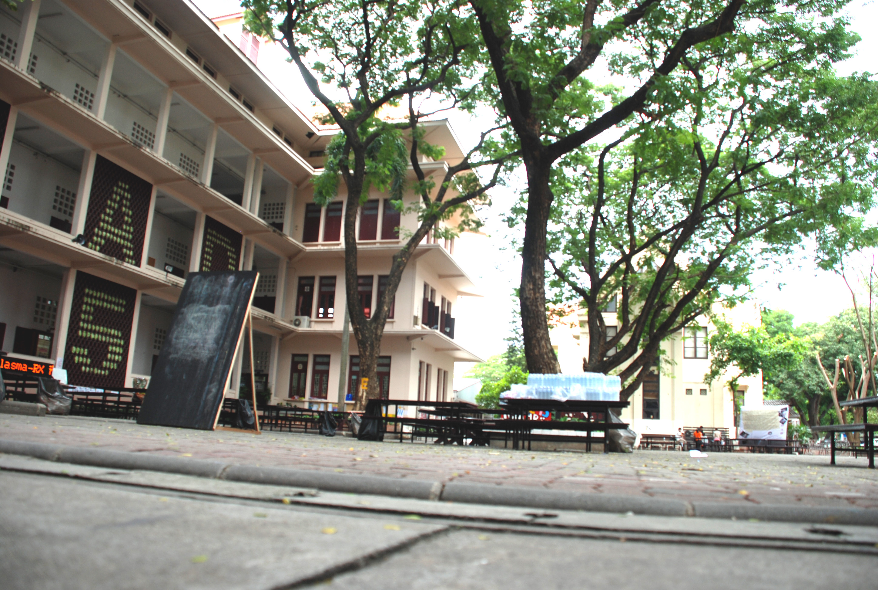 Lan Gear, at Faculty of Engineering, Chulalongkorn University Bangkok, Thailand